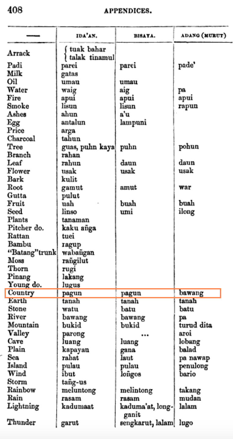 Glossary of translation of English to 3 native languages of Borneo